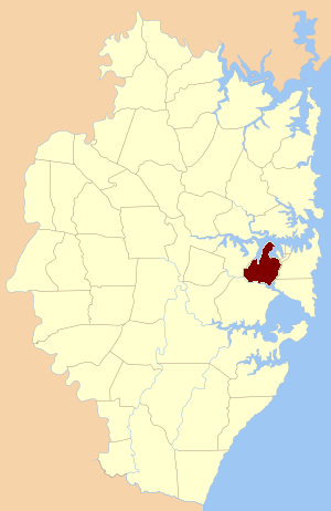 original location of the parish within Cumberland County, New South Wales (Sydney area)